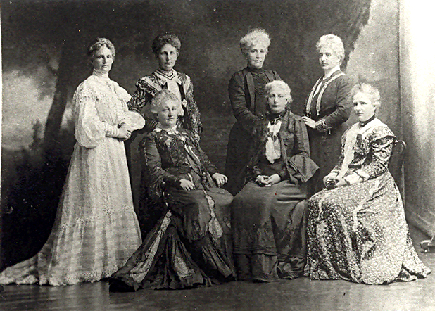 Seven Leake Sisters 1904. The second and last time all the sisters were together since they grew up. Standing L to R: Blanche Kelsall, jane Adam, Jessie Skinner, Constance Lodge Seated: Lady Parker, Mary Parry, Rose Clifton. Some more information from a 1997 newspaper article: From probably the Sunday Times, 14 December 1997. Perth's society at the turn of the century had few groups more striking and influential than the seven daughters of George Walpole and Rose Ellen Leake. Leake served as attorney-general in the WA government and several of his daughters married into the legal profession. This 1904 photograph is historic in that it records only the second meeting of the seven as adults—and was the last occasion in which all were together. The sisters are, back row from left, Blanche Edith Kelsall, Jane Emily Adam, Jessie Ellen Skinner, Sarah Constance Lodge. Front, from left: Lady (Amy Katherine) Parker, Mary Susannah Parry, and Rose Louise Clifton. Battye Library 4055B/3. FAR LEFT: George Walpole Leake. Battye library 1104P. LEFT: Rose Ellen Leake. Battye Library 806B.